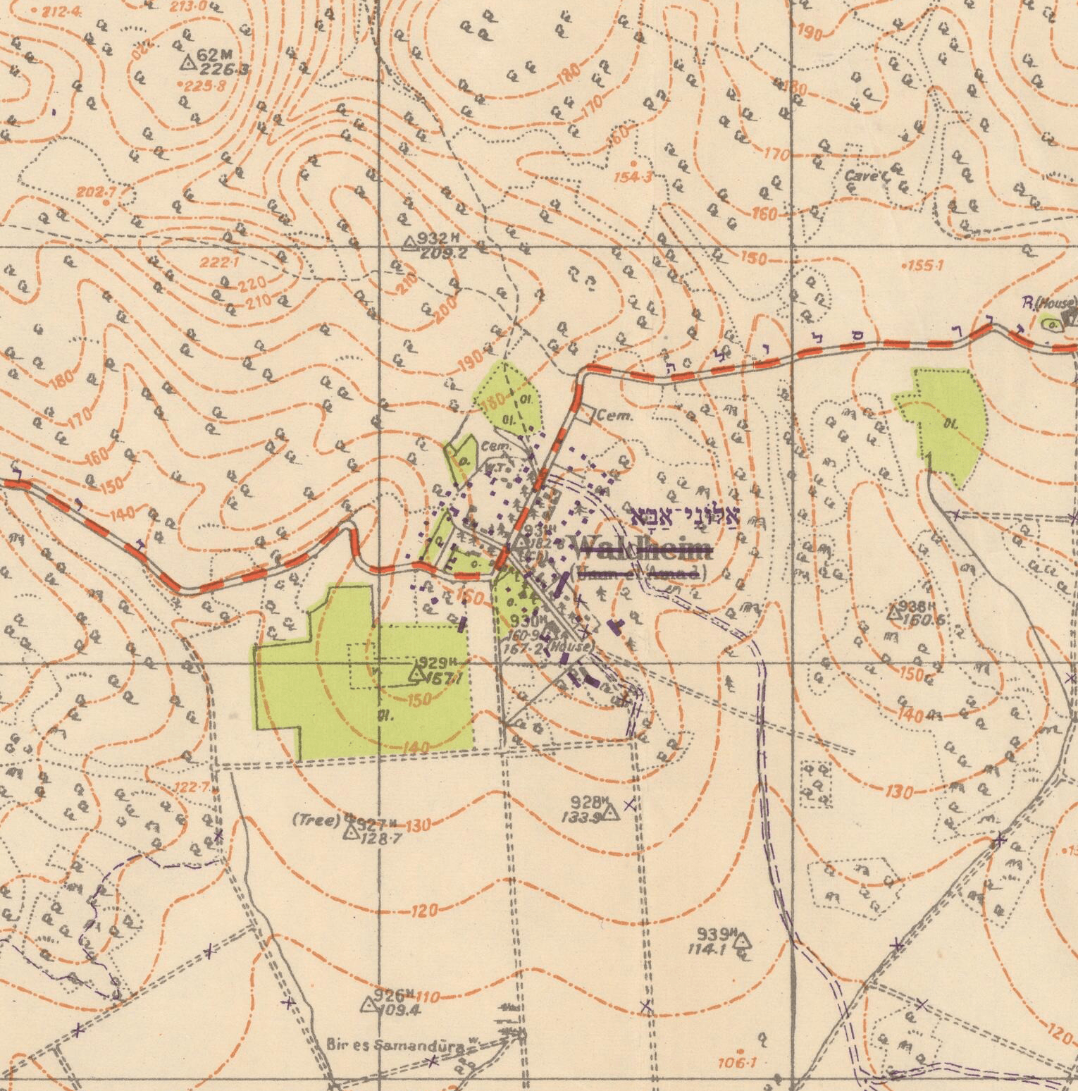 This 1956 map was produced by the Survey of Israel by overprinting the Survey of Palestine 1:20,000 map "Nahalal 16-23". New buildings of Alonei Abba are shown intermingled with the buildings inherited from Waldheim, which in turn was built on the site of Umm el Amad.